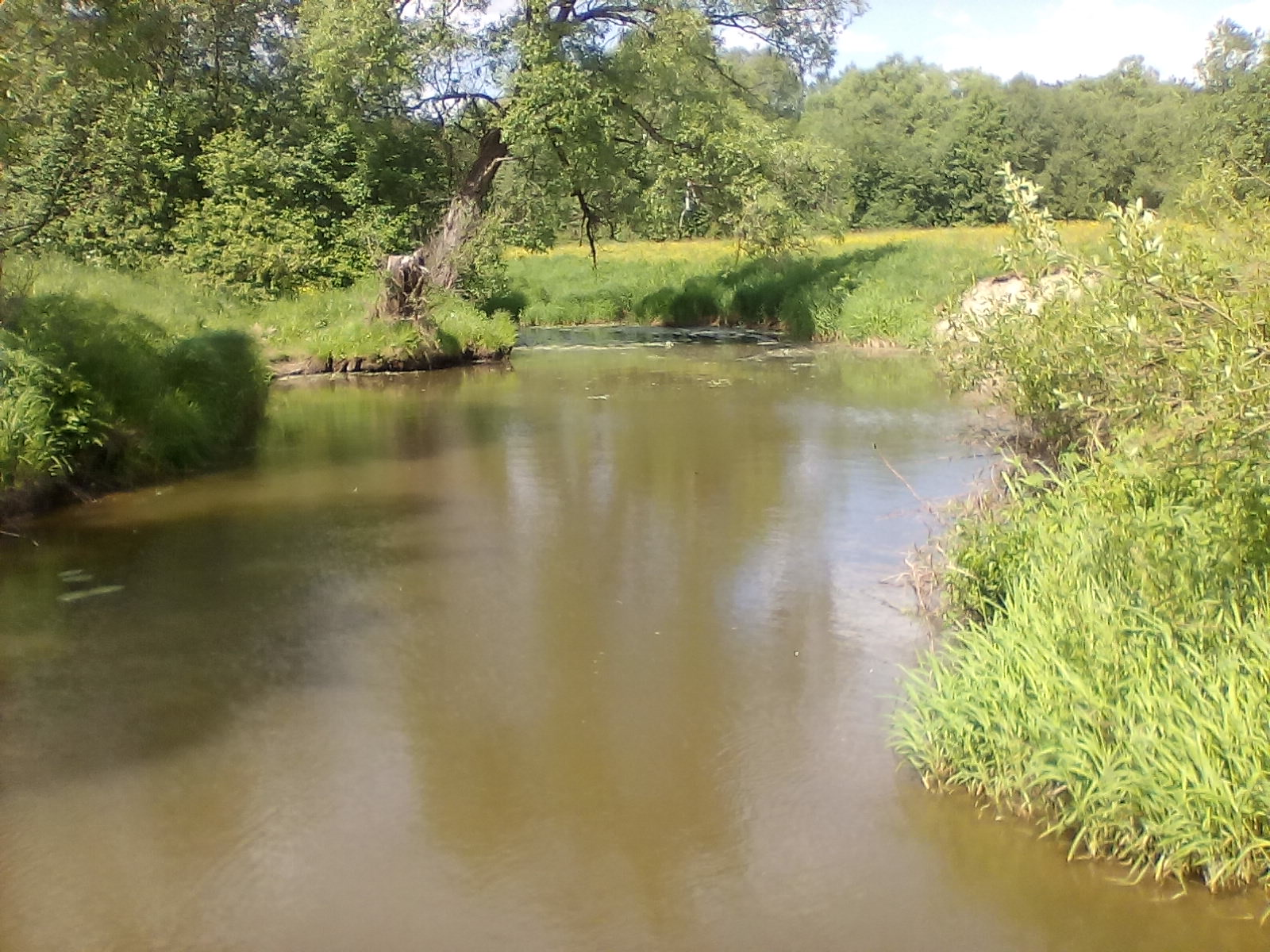 Талица на восточной окраине Софрино